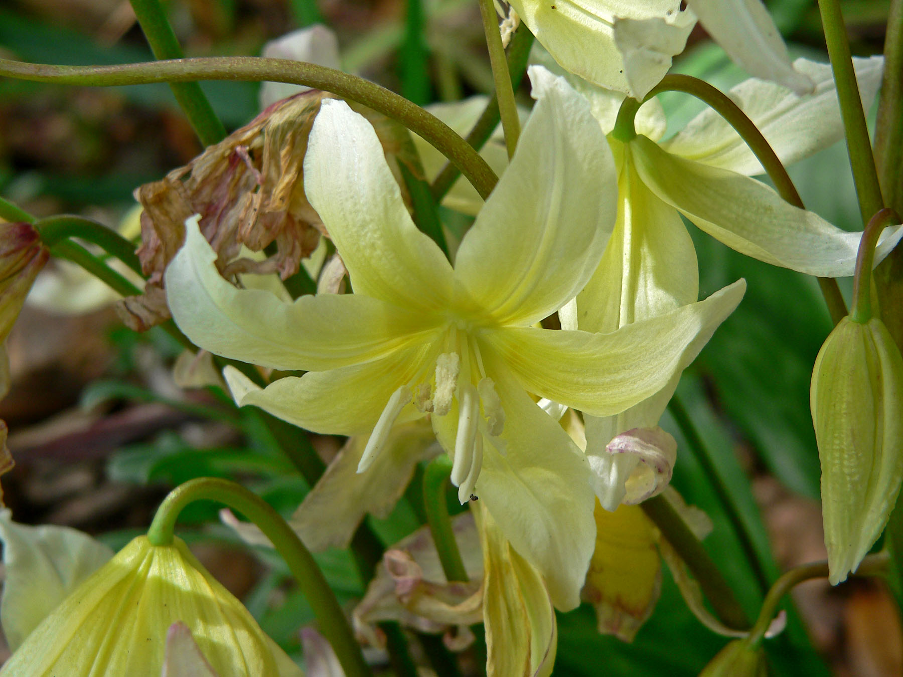 Photo of Erythronium californicum at the Regional Parks Botanic Garden, Berkeley, California